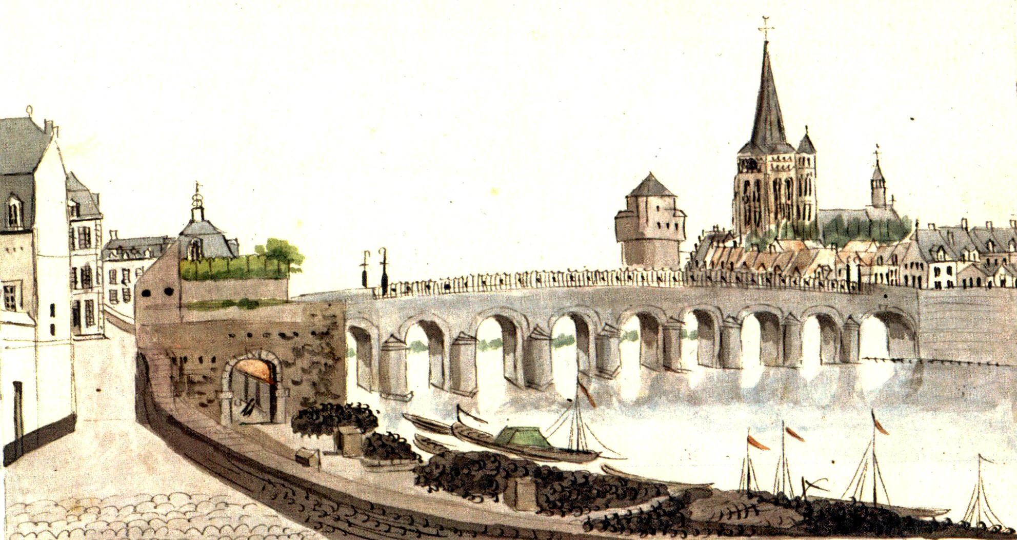 Maastricht, the Netherlands. View of the river Meuse and Saint Servatius Bridge. Along the river the Koolbat quay and the 17th-century Batpoort citygate, which would be demolished one year later to give way for the Canal Liège-Maastricht. Drawing by Philippus van Gulpen, 1848.